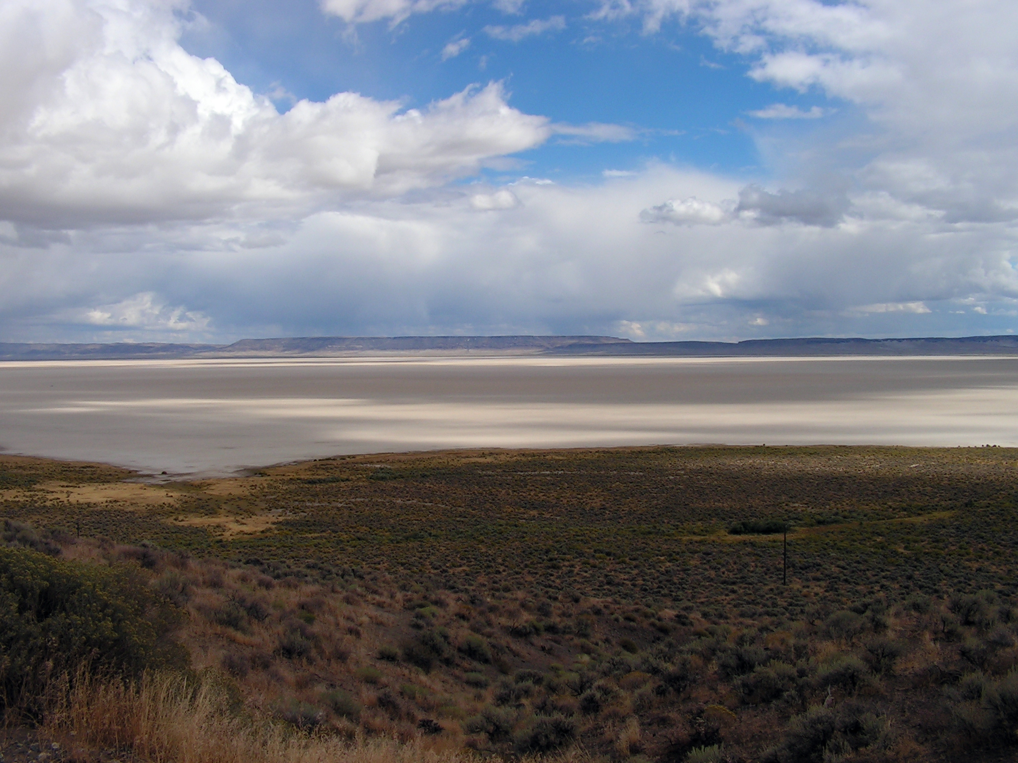 A view of the Alvord Desert from East Steens Road in Oregon, USA. Taken September 2005. The darker areas are examples of cloud shadows.